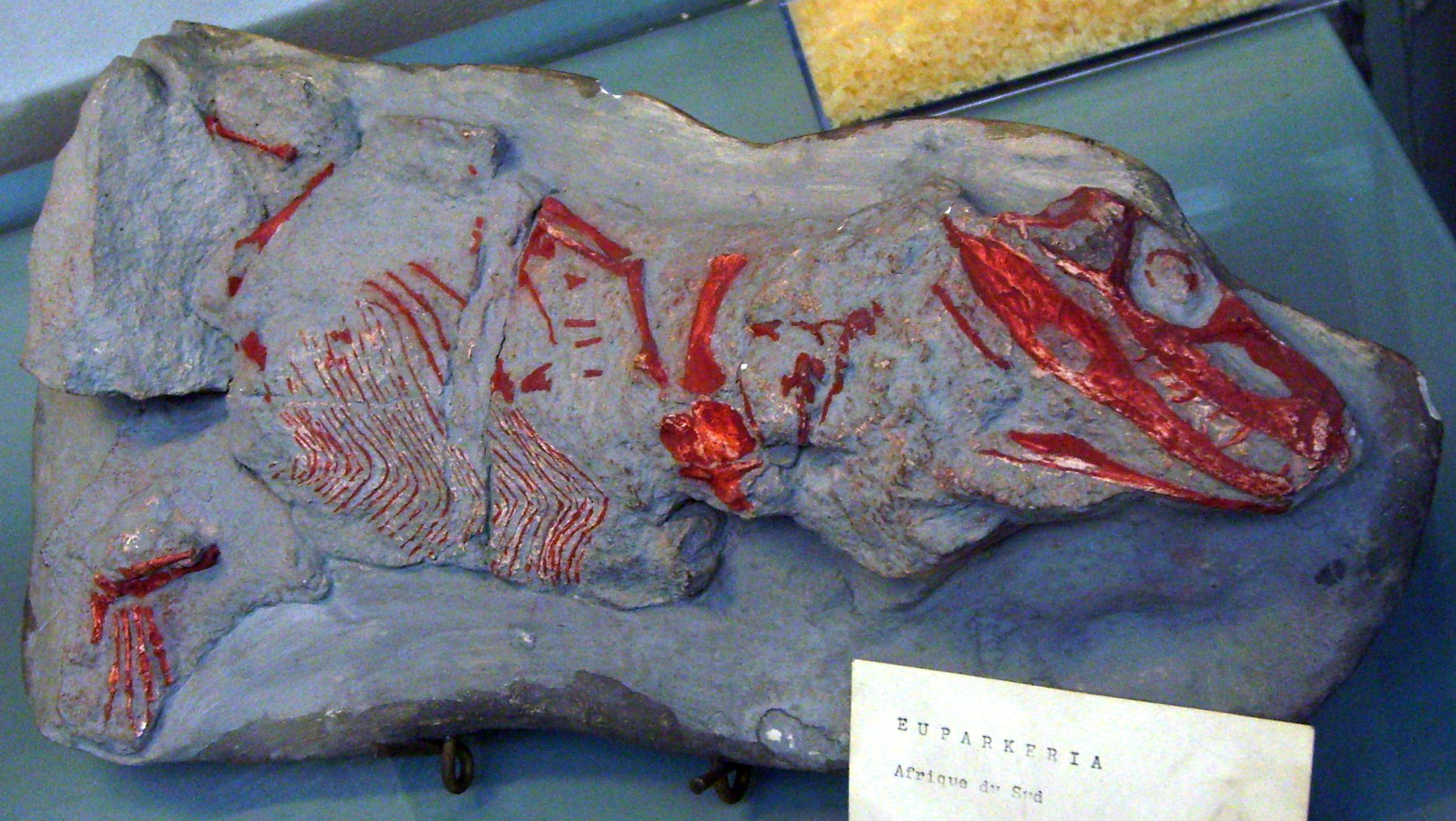 Cast of the holotype of Euparkeria capensis, Muséum national d'Histoire naturelle, Paris. The red colour of the bone structures is not present in the original fossil.[1] ↑ R. F. Ewer (1965): The Anatomy of the Thecodont Reptile Euparkeria capensis Broom. Philosophical Transactions of the Royal Society of London. Series B, Biological Sciences, 248: 379-435 (see fig. 20 therein)